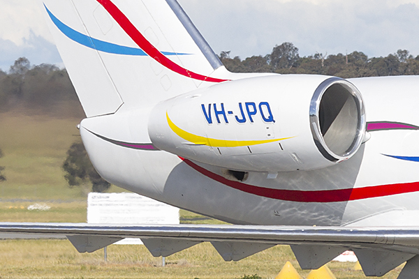 Australian Corporate Jet Centres (VH-JPQ) Canadair CL-600-1A11 Challenger 600 at taxiing Wagga Wagga Airport.